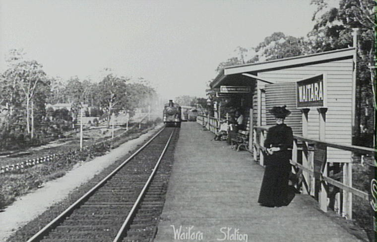 Waitara railway station in 1907. The woman in the photograph is the stationmaster's wife.